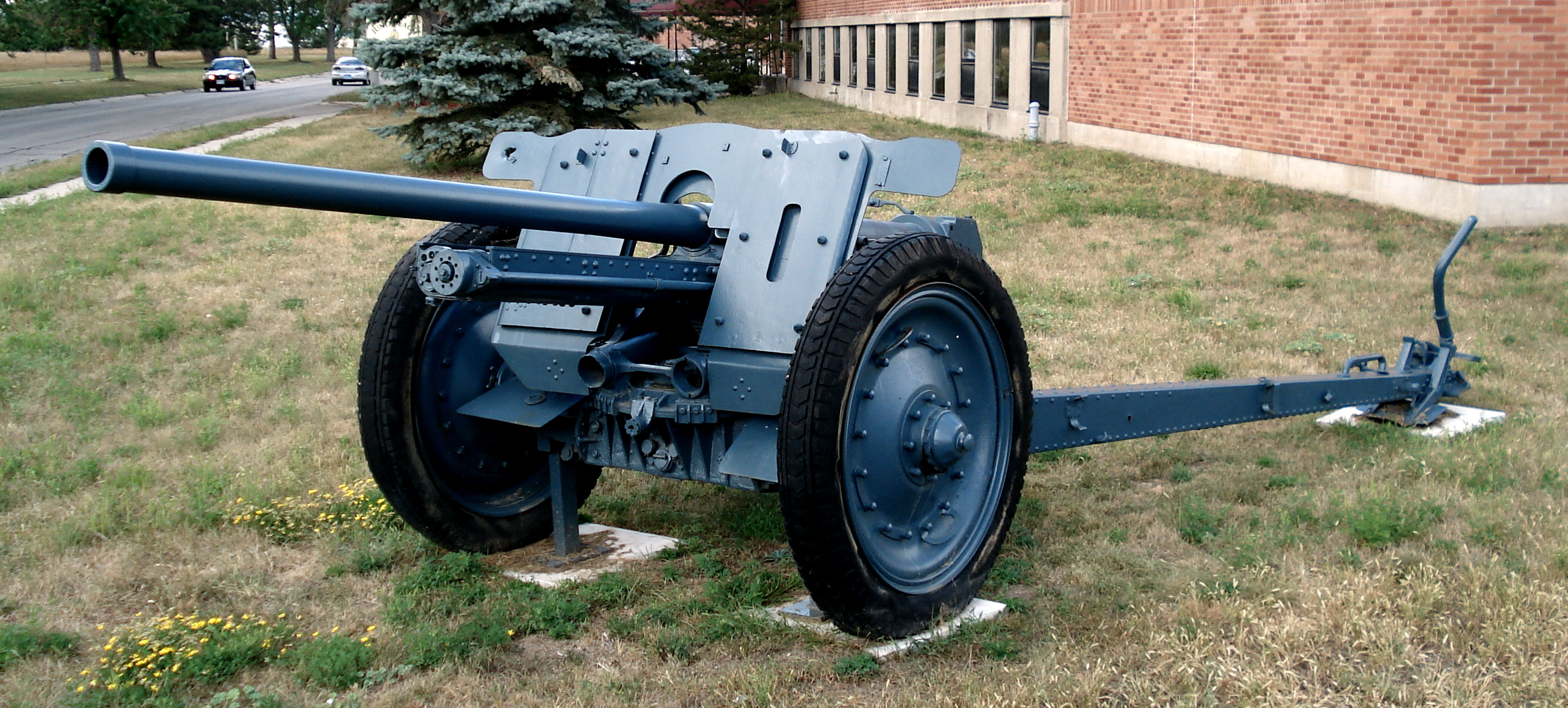 German Pak 36(r) 76,2 mm anti-tank gun, obtained from converting captured Soviet F-22 76 mm guns. This example is displayed on the grounds of CFB Borden (Base Borden Military Museum). Note that the gun is in the full recoil position, with the barrel all the way back. In normal use the gun would be in this position only in the brief moment after firing. Photo taken on August 18, 2006. Source: Photo by me, User:Balcer.